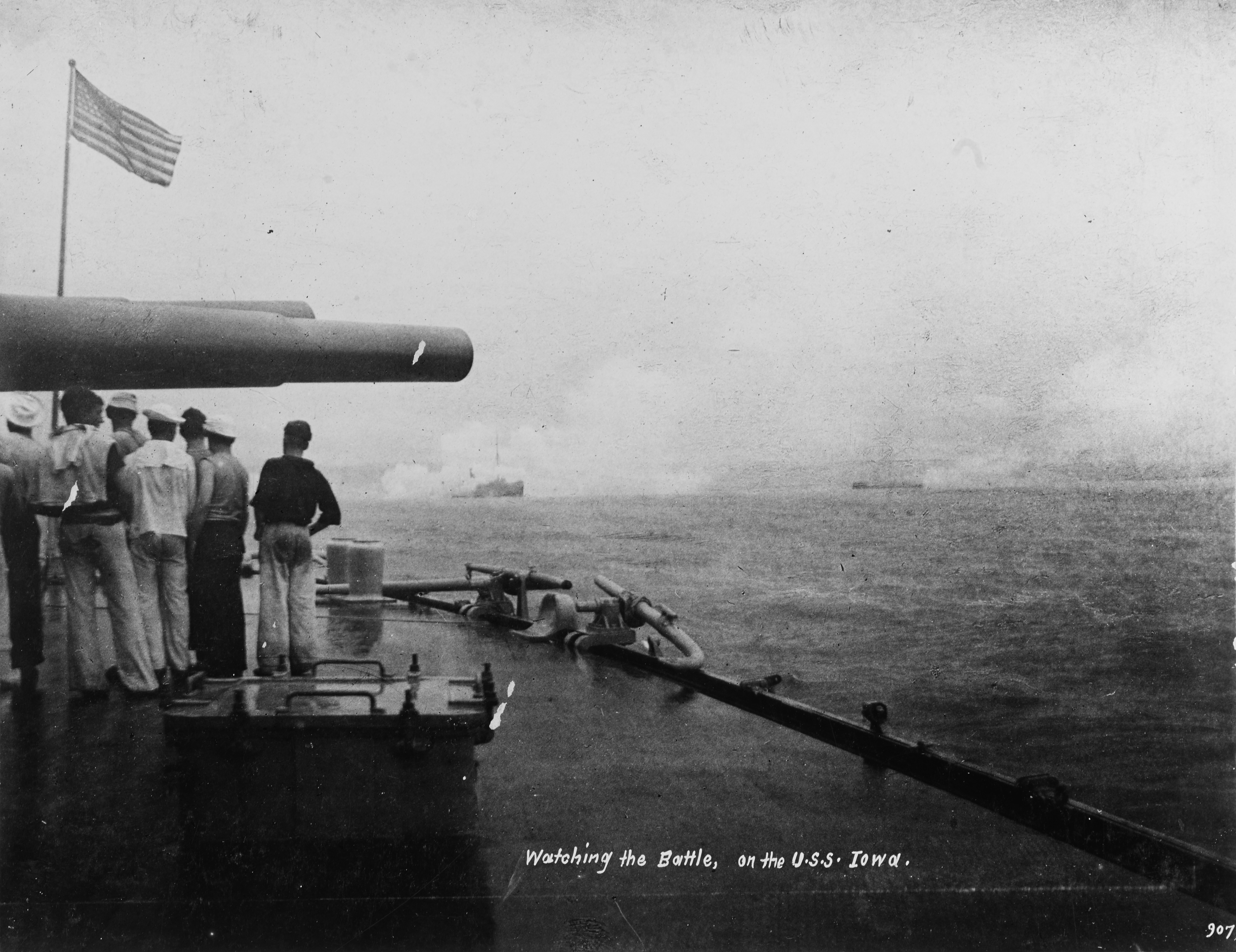 Watching the battle from the deck of USS Iowa (Battleship # 4). Note the volume of dense gun smoke around the ship in left center. Copied from the Journal of Naval Cadet Cyrus R. Miller. U.S. Naval History and Heritage Command Photograph.